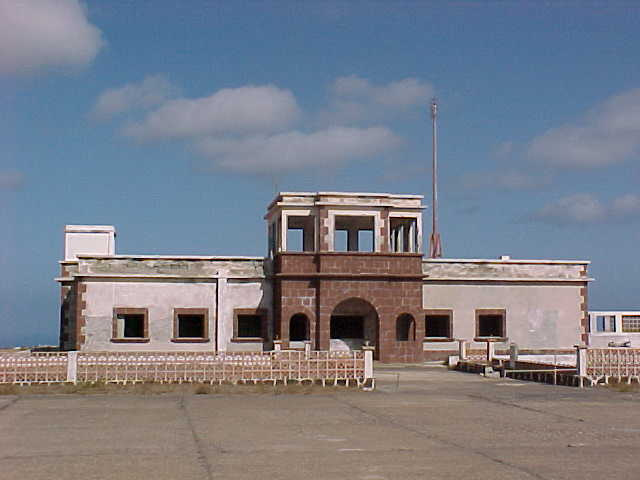 Los Estancos Airport, Fuerteventura, Canary Islands. Spain.